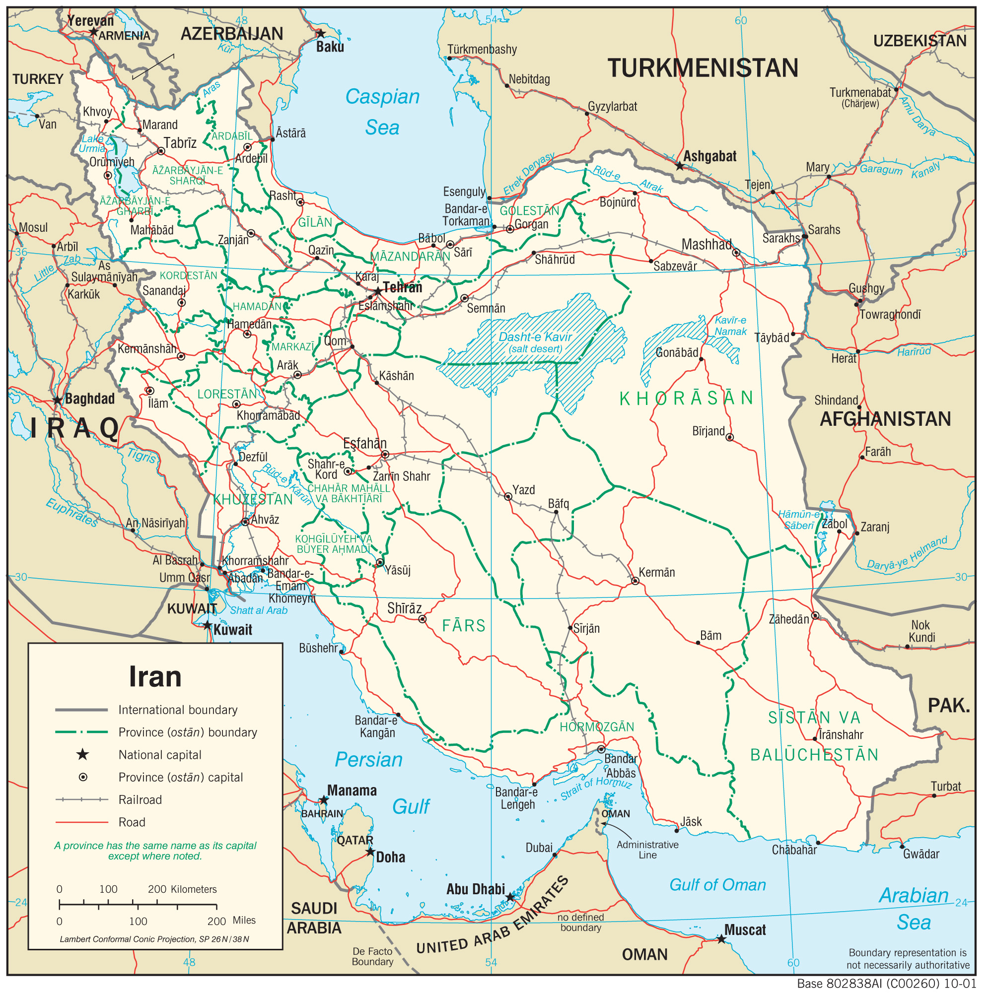 Transport system in Iran, 2001.